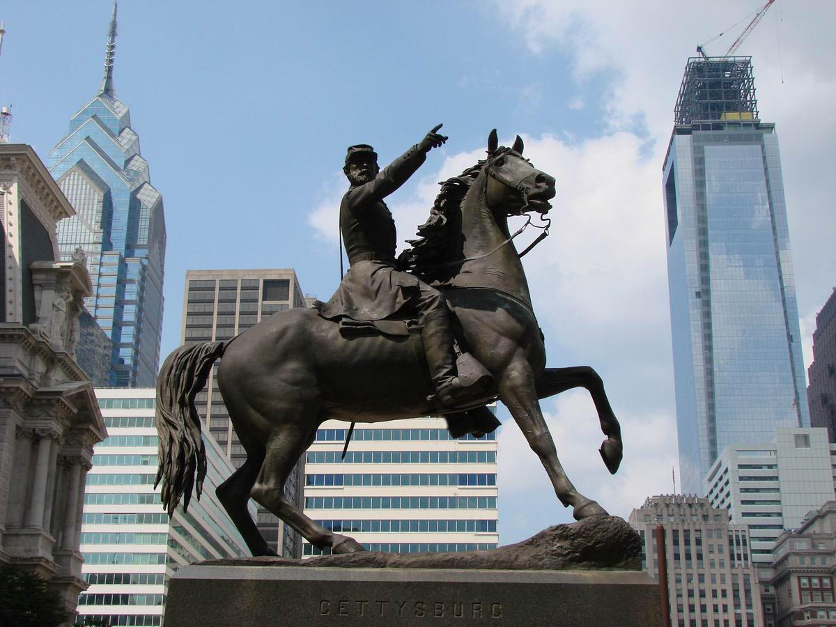 Equestrian statue of John F. Reynolds in front of Philadelphia City Hall.